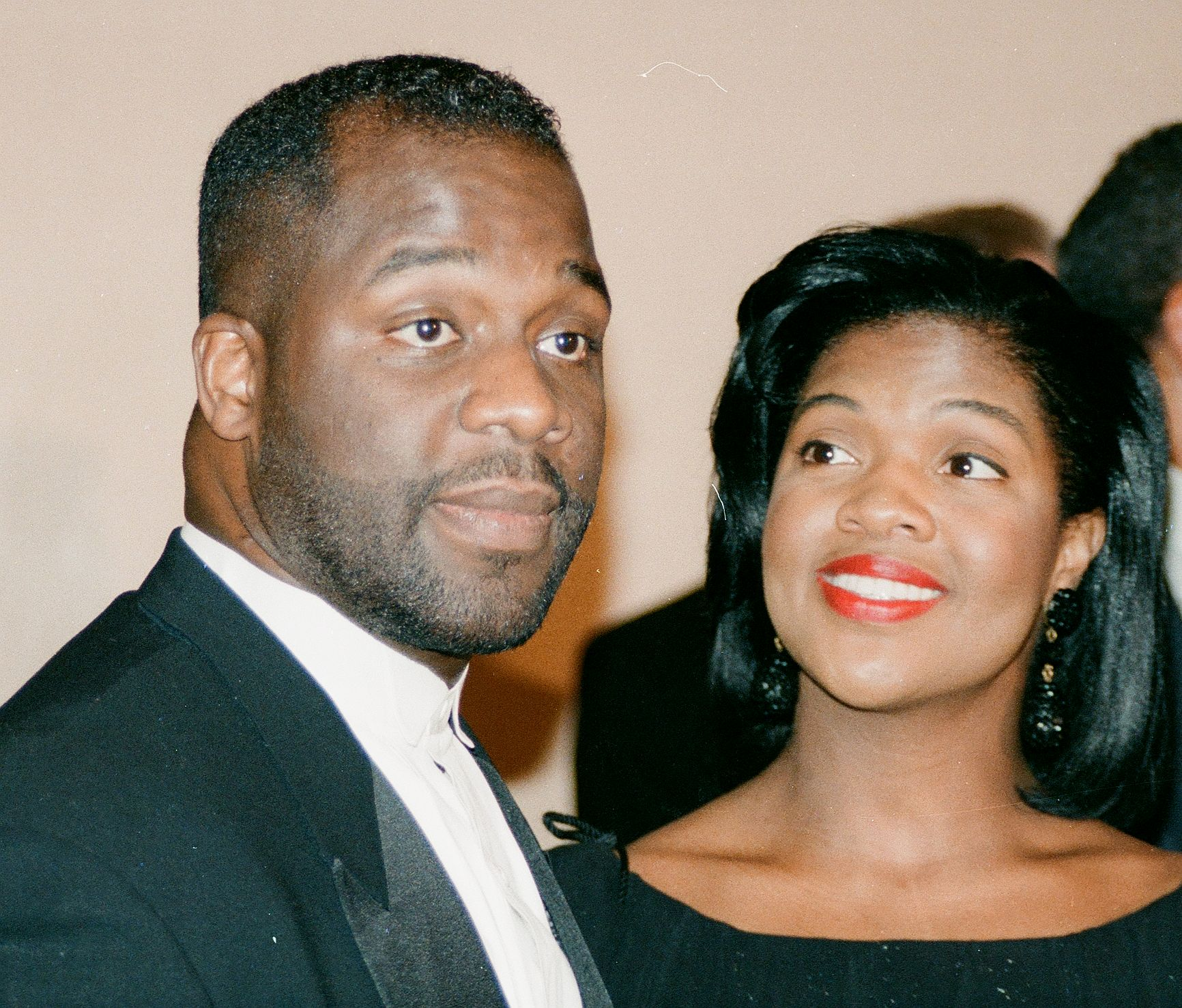 Wash. D.C. N.A.B.O.B. March 1994